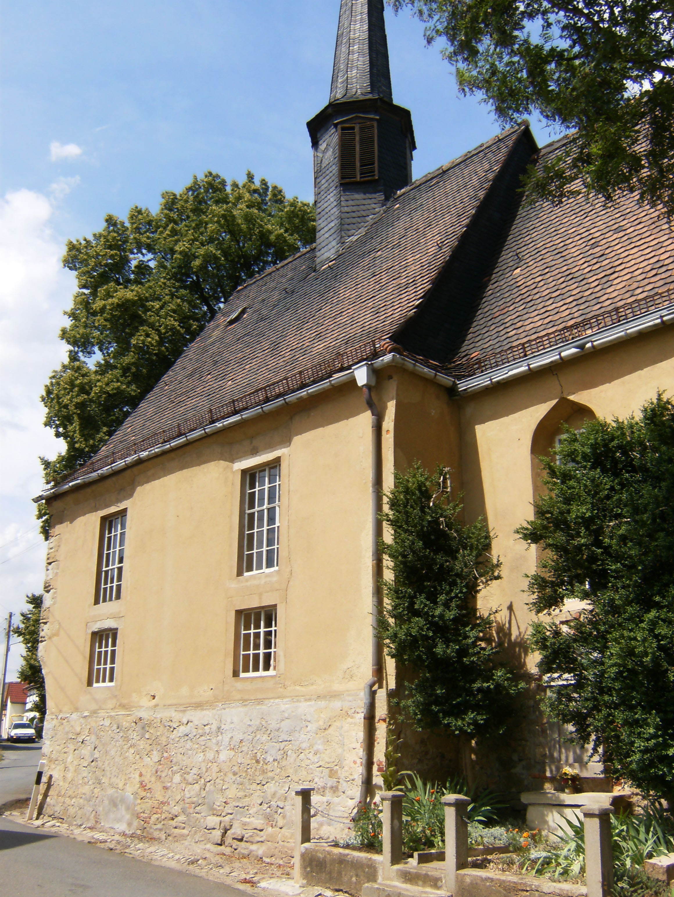 Gera Soellmnitz, village church.